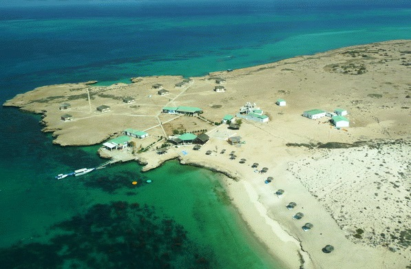 Moucha Island, Djibouti in 2013